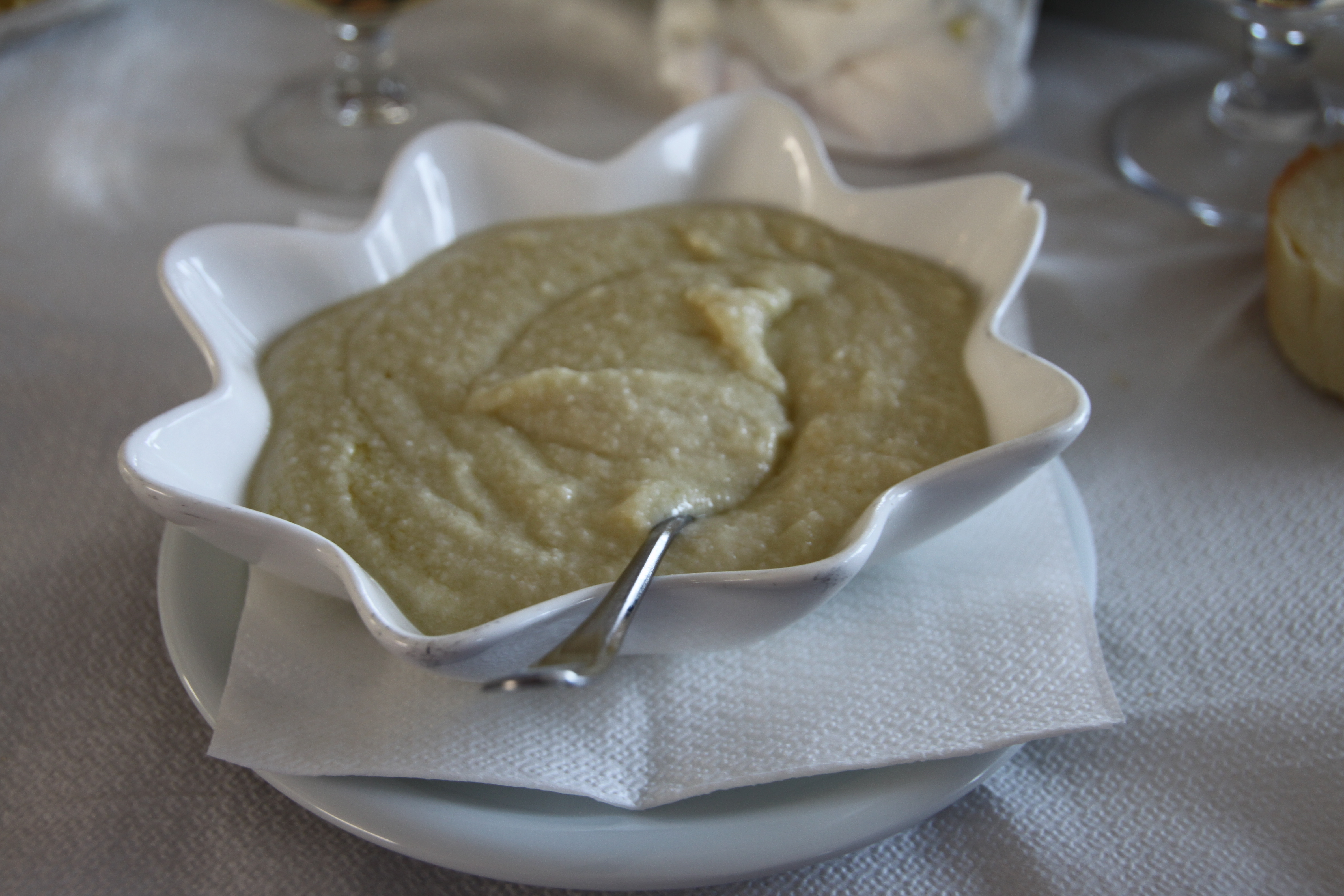 Garlic sauce... Photo from Mario Restaurant at Monolithos of Santorini... Annunciation Day's Meal